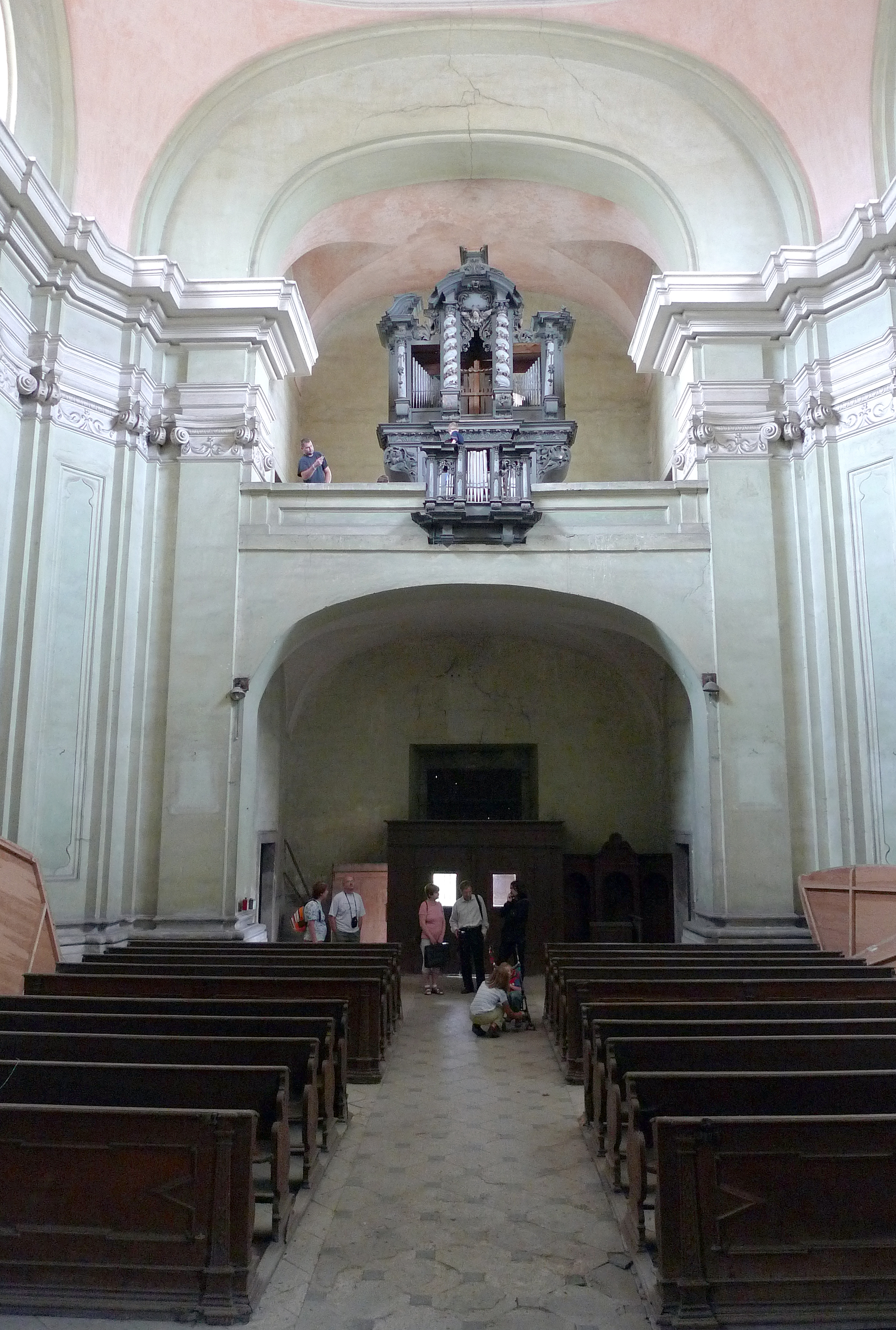 Saint Gall church in Štolmíř, Czech Republic.